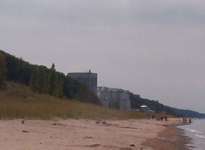 Palisades Nuclear Plant as viewed from Van Buren State Park-located immediately north of Palisades.